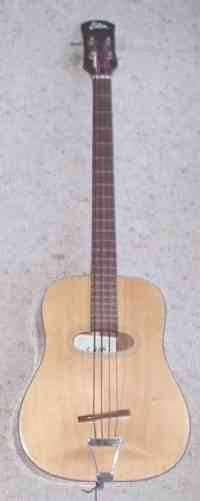 Eston fretless acoustic bass guitar. What appear to be frets are actually markers, and are very useful for guitar or precision bass players. Eston was an Australian brand for Eko instruments. The finish of this example is strikingly like that of an Eko 12-string I have played regularly over the years. I bought this example new but shop-soiled in the early 1980s. User:Andrewa 01:14, 20 March 2006 (UTC) This is an original photograph by Andrew Alder, taken on 15 September 2003.